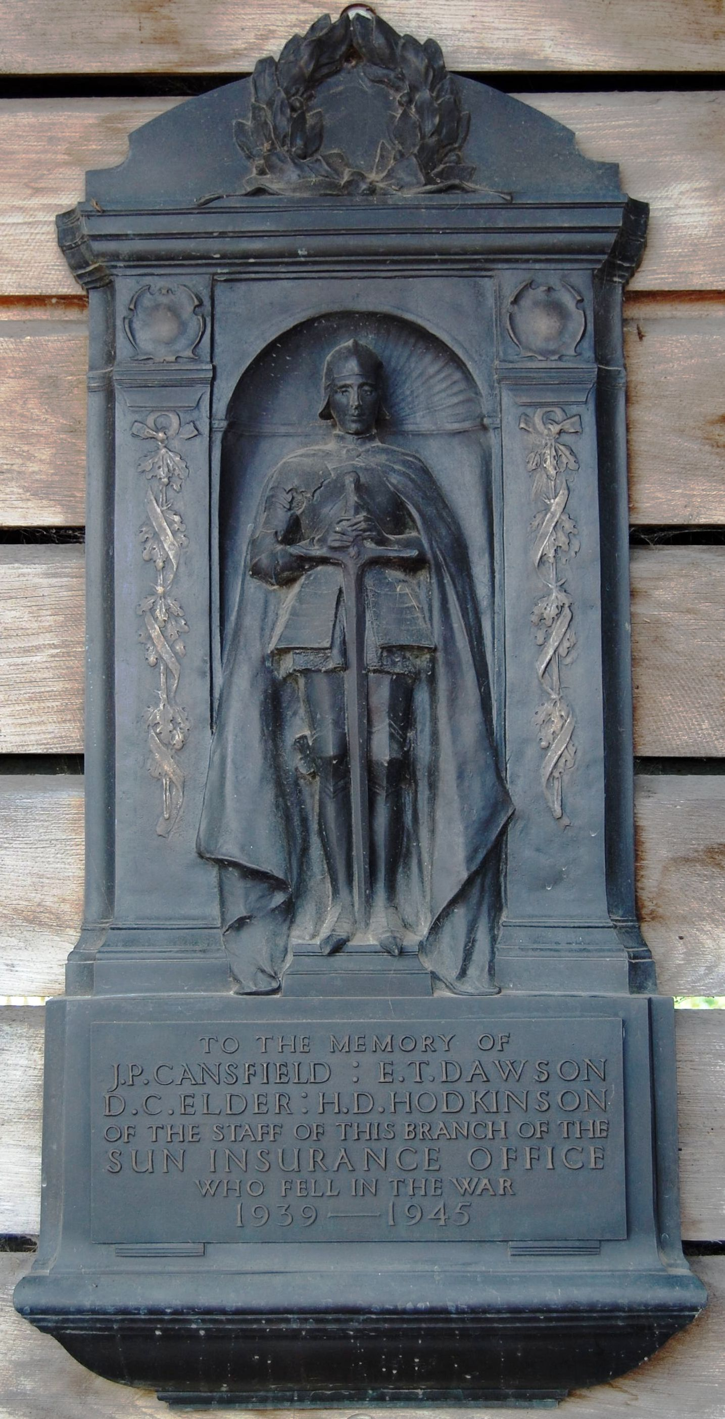 Sun Insurance WWII memorial, now relocated to the National Memorial Arboretum, Alrewas, Staffordshire, England. Inscription reads: "To the memory of J.P. Lansfield: E.T Dawson: D.C. Elder: H.D. Hodkinson of the staff of this branch of the Sun Insurance Office who fell in the war 1939-1945"